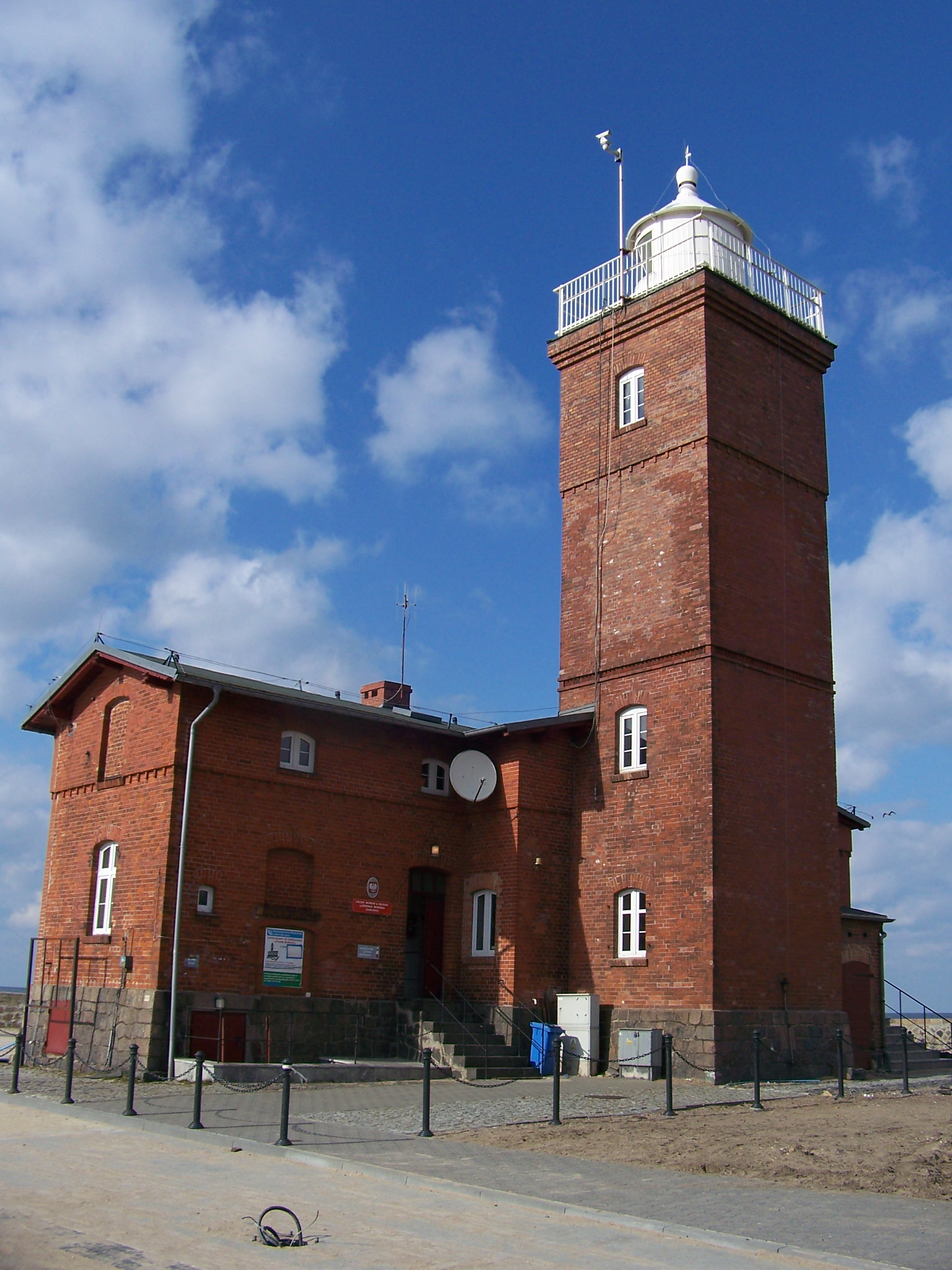 Lighthouse in Darłówko